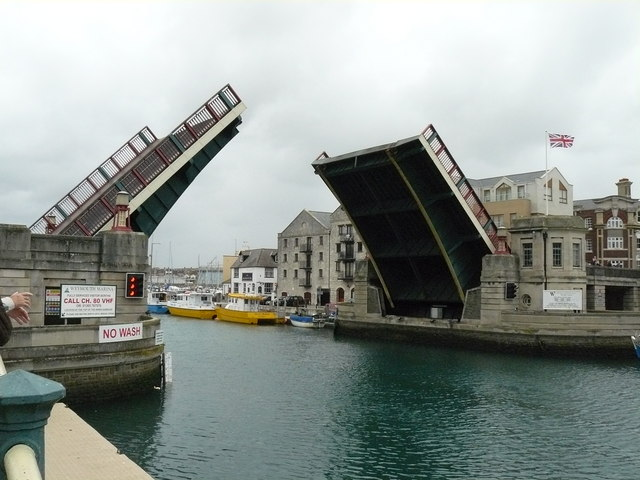 Weymouth - Harbour Bridge This bridge replaced a swing bridge constructed in 1824 which in turn replaced the first bridge which was erected in 1597 that was a wooden bridge of seventeen arches with a draw-bridge.